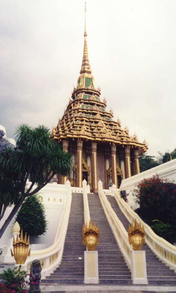 Wat Phra Buddha Baat in Saraburi province, Thailand Photo taken by User:Ahoerstemeier on December 4 2002.